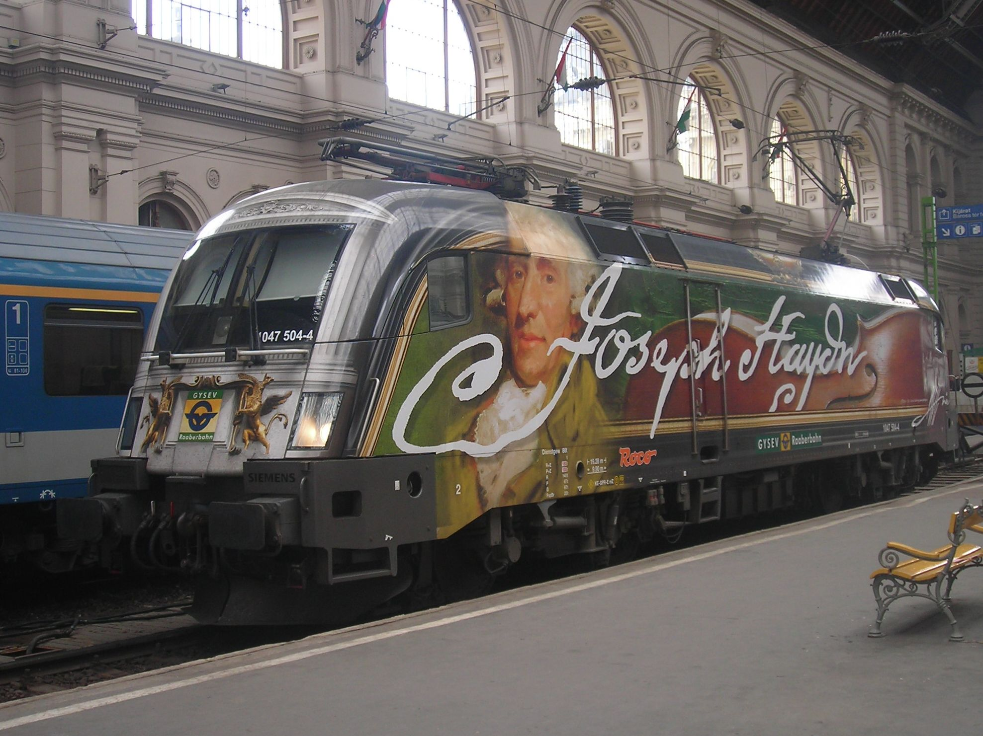 The GySEV Joseph Haydn werbelok in Budapest-Keleti pályaudvar